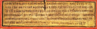 Transfiguration Monastery in Dryovouno Dryanovo Inscription